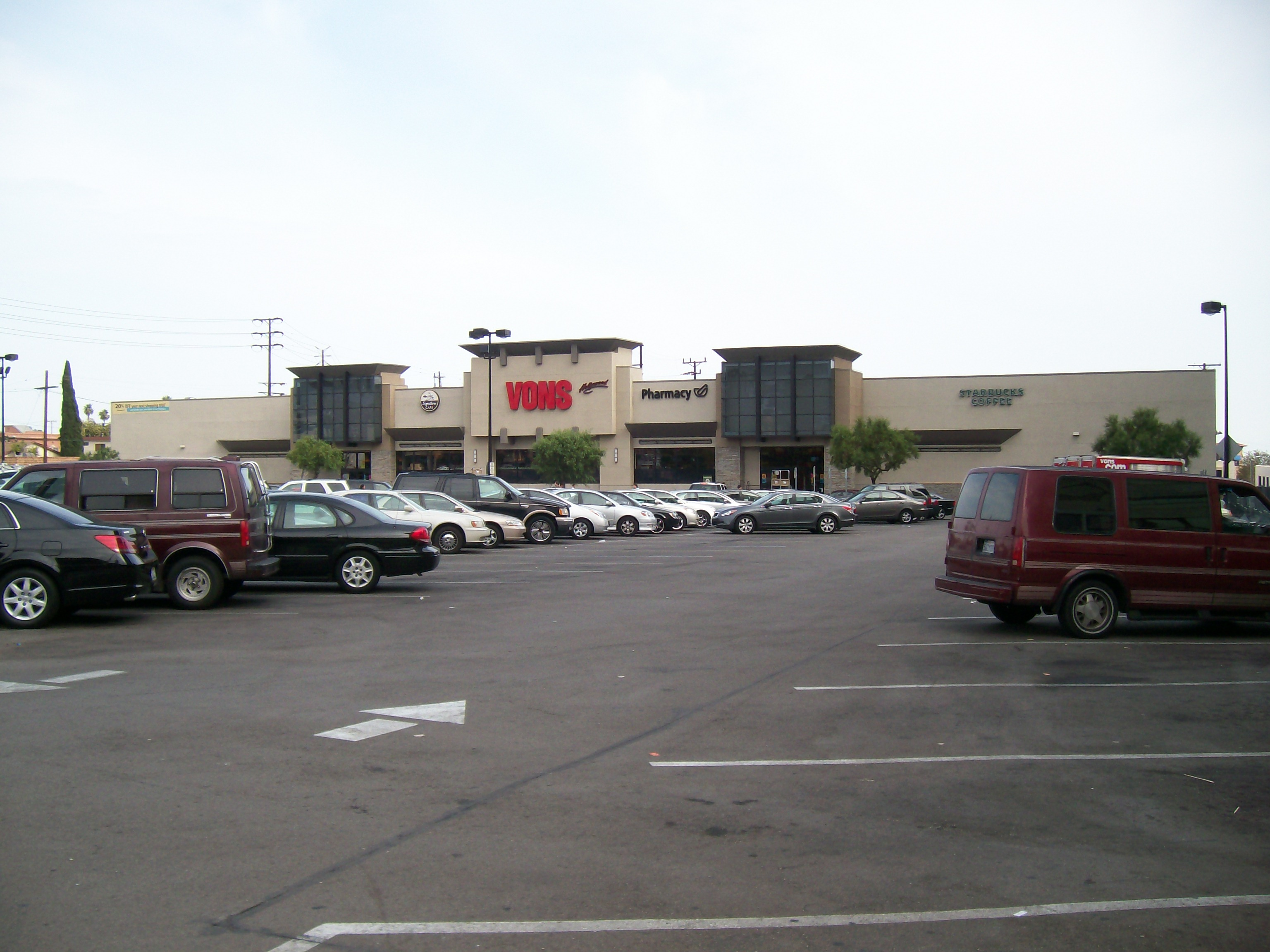 Exterior of the Vons store at 4520 Sunset Blvd., in Los Angeles, CA